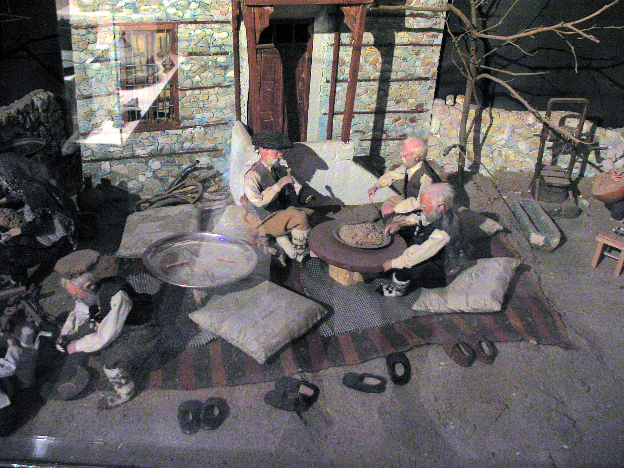 Traditional Alanya wedding, Archeological museum of Alanya, Turkey.